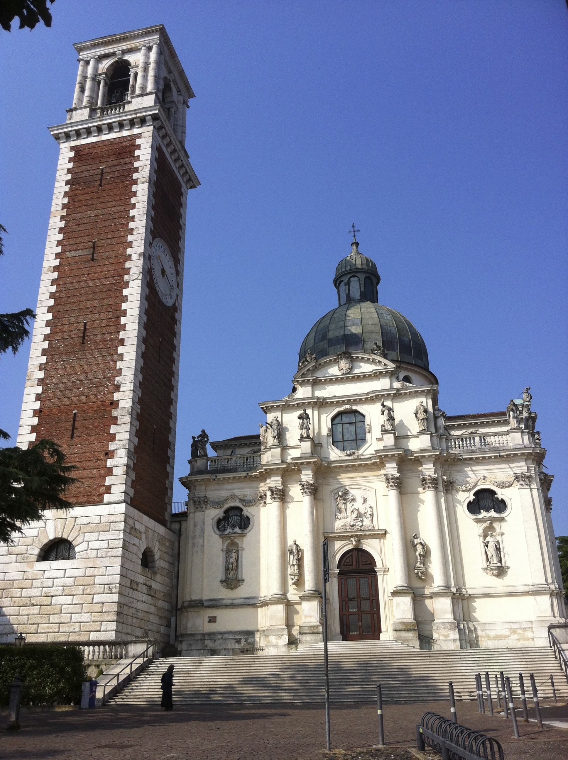 Basilica of Monte Berico, Vicenza